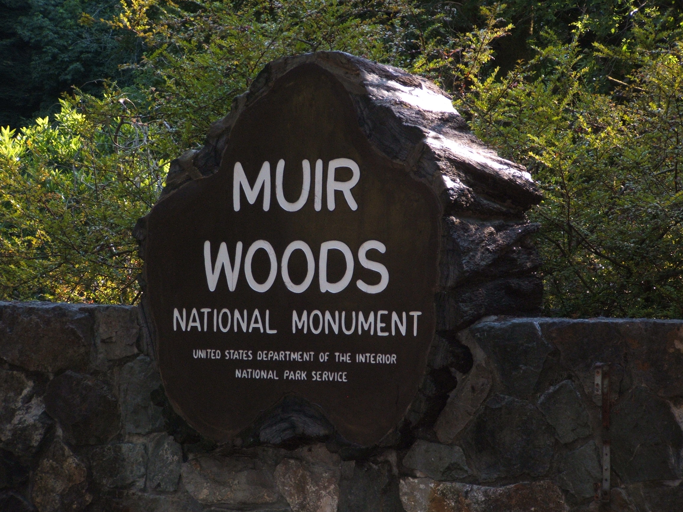 The entrance to Muir Woods National Monument. Muir Woods National Monument.